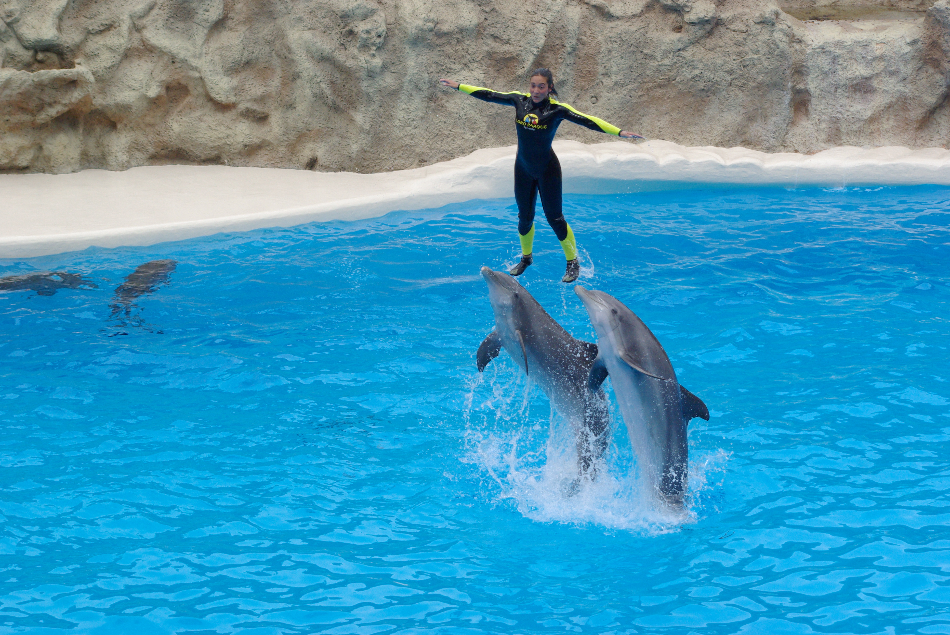 Jumping dolphins at Loro parque, Teneriffe with Claudia Vollhardt